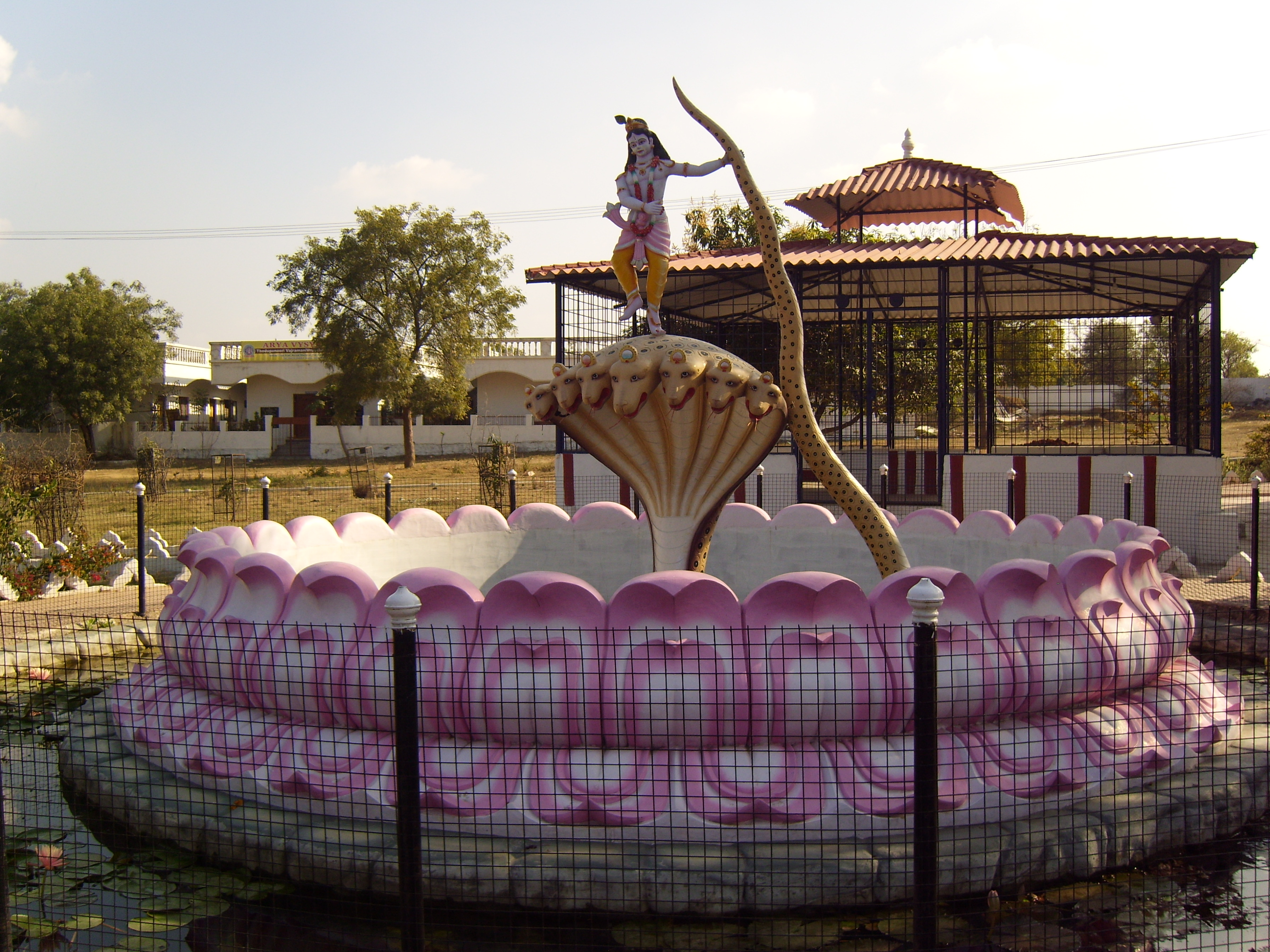 ratnalam venkateswara temple